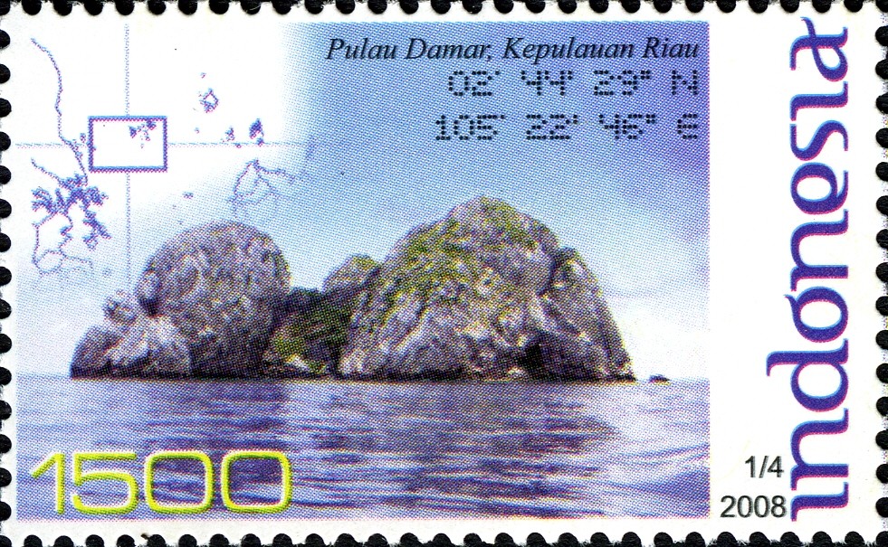 Stamps of Indonesia